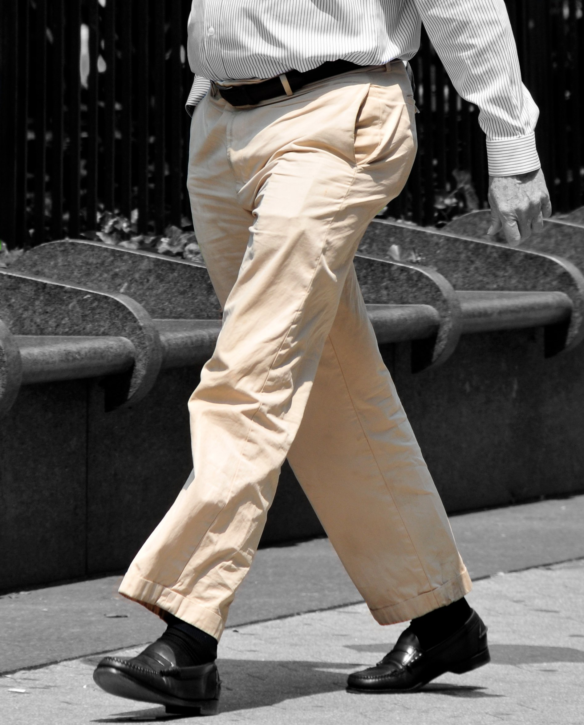 Khaki trousers, colour isolated